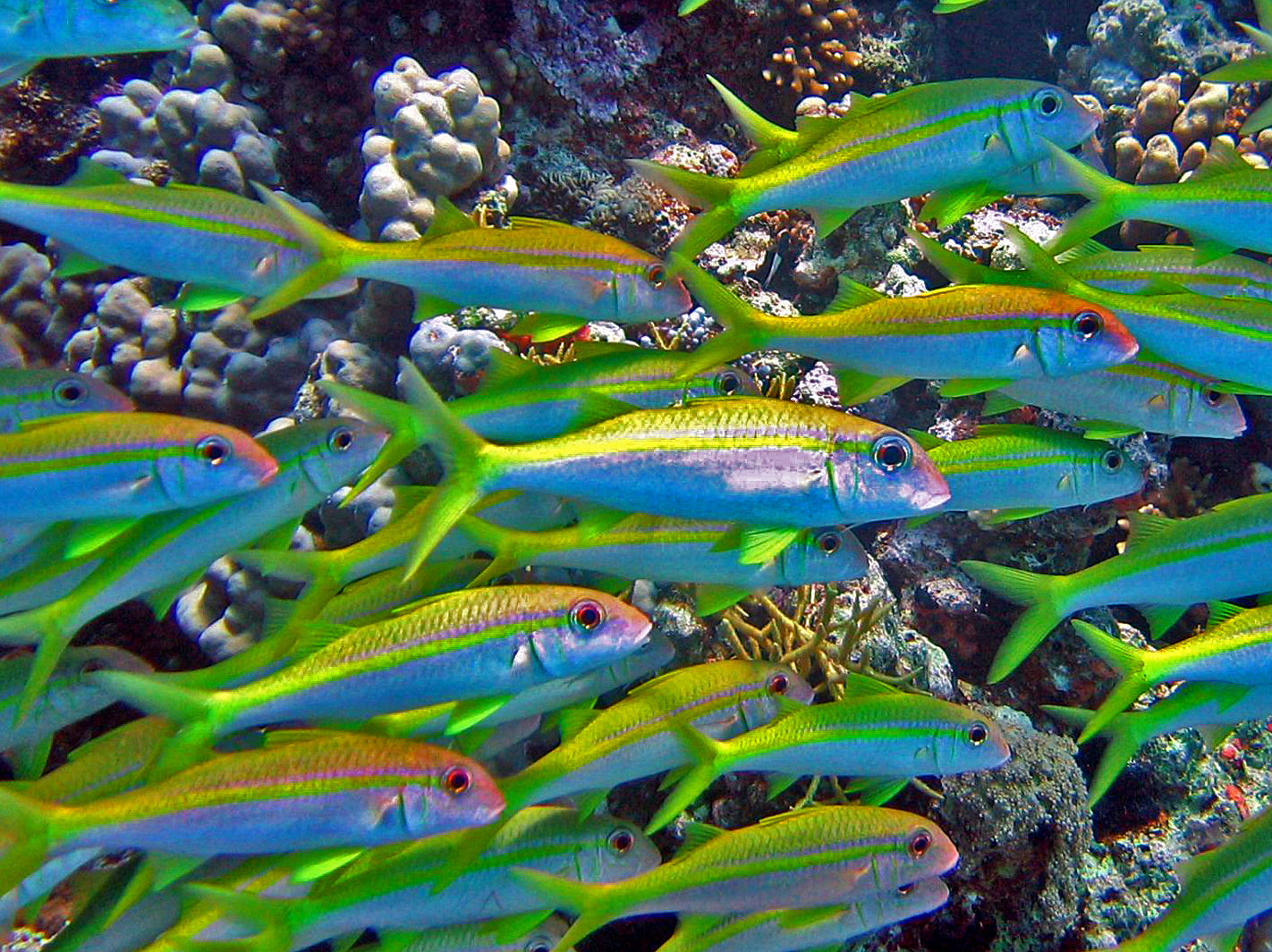 Mulloidichthys vanicolensis at Hurgada, Red Sea